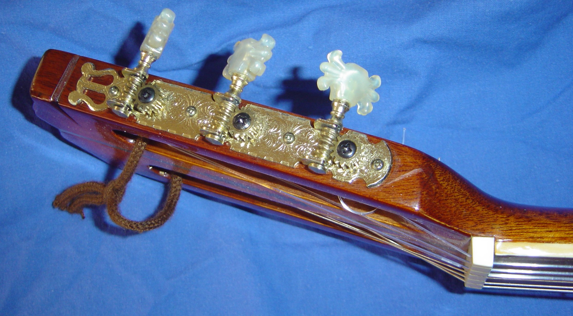 Machine head of a classical guitar, with gears apparent (c) 2004 David Monniaux